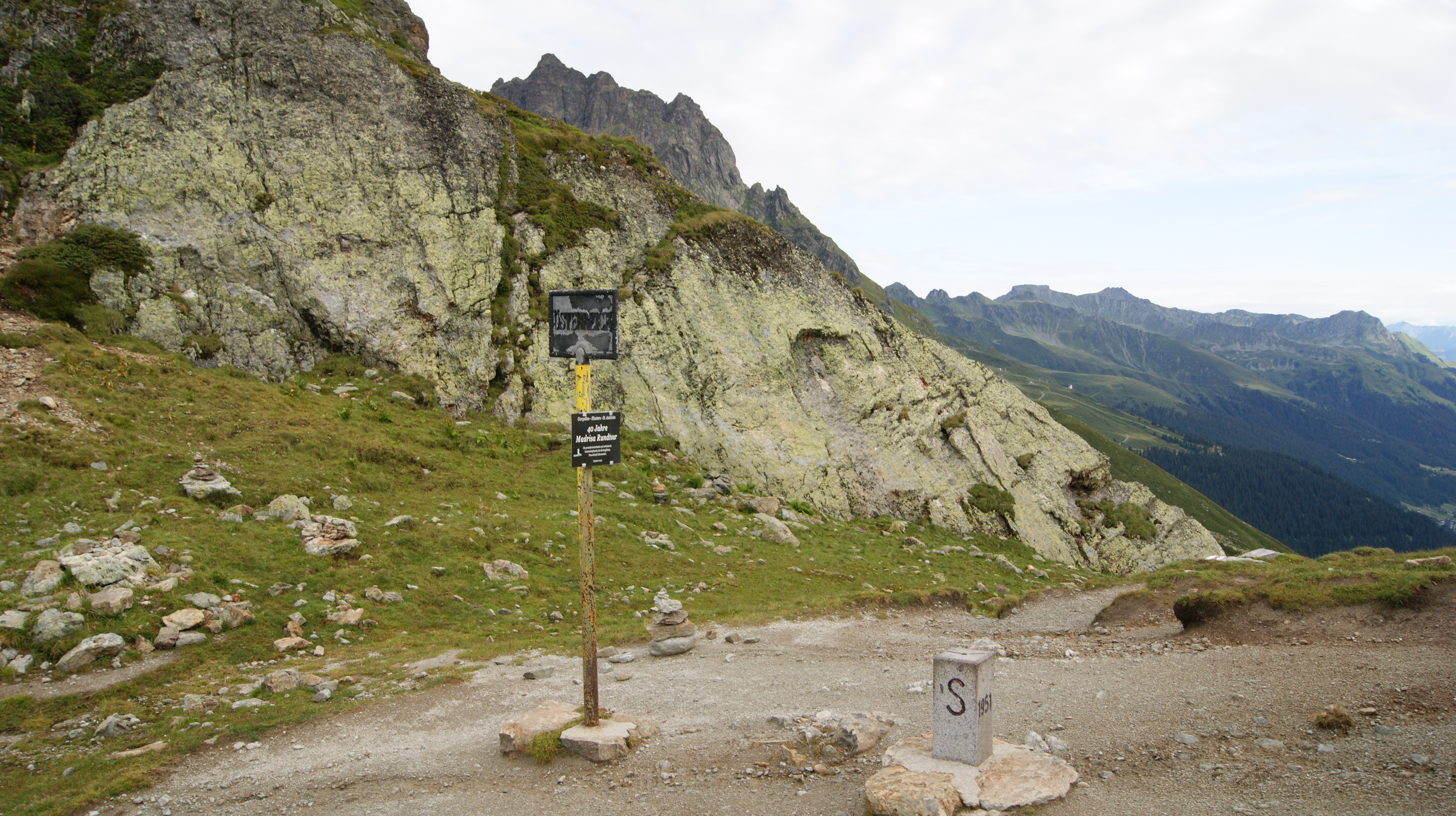 Schlappiner Joch - border in the municipality Gargellen in Vorarlberg Austria and the community Klosters (Schlappin) in Graubünden (Switzerland)